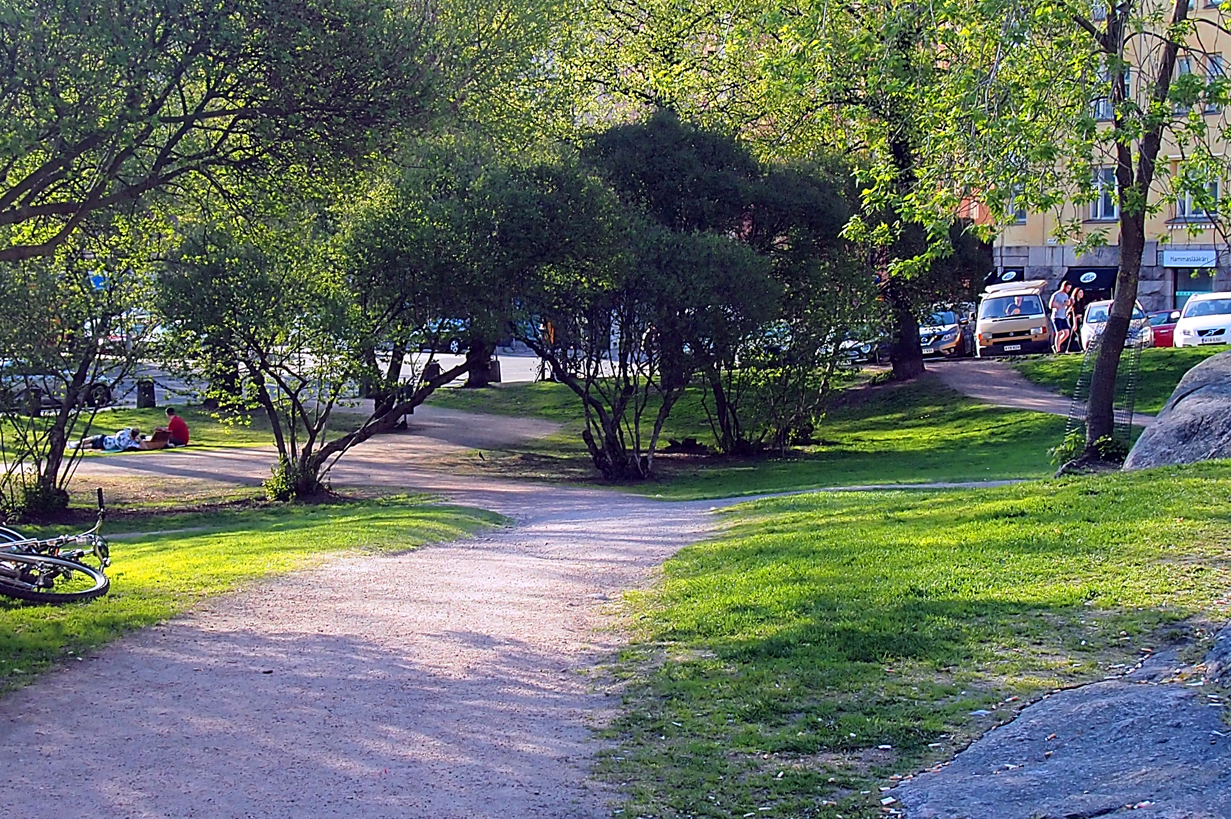 The park "Matti Heleniuksen puisto" in the district of Kallio in Helsinki, Finland.